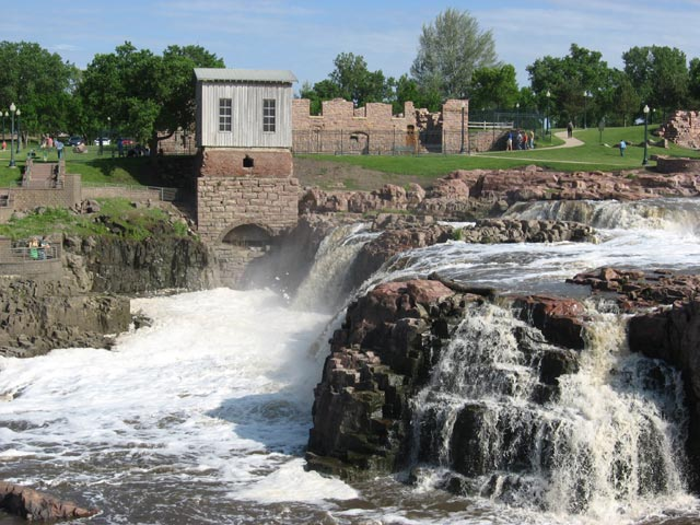 Falls of the Big Sioux River in Sioux Falls, South Dakota, USA. The wooden structure in the background is a reconstruction of the wheelhouse for providing water power to the Queen Bee Mill, the stone ruins of which are visible behind the wheelhouse.